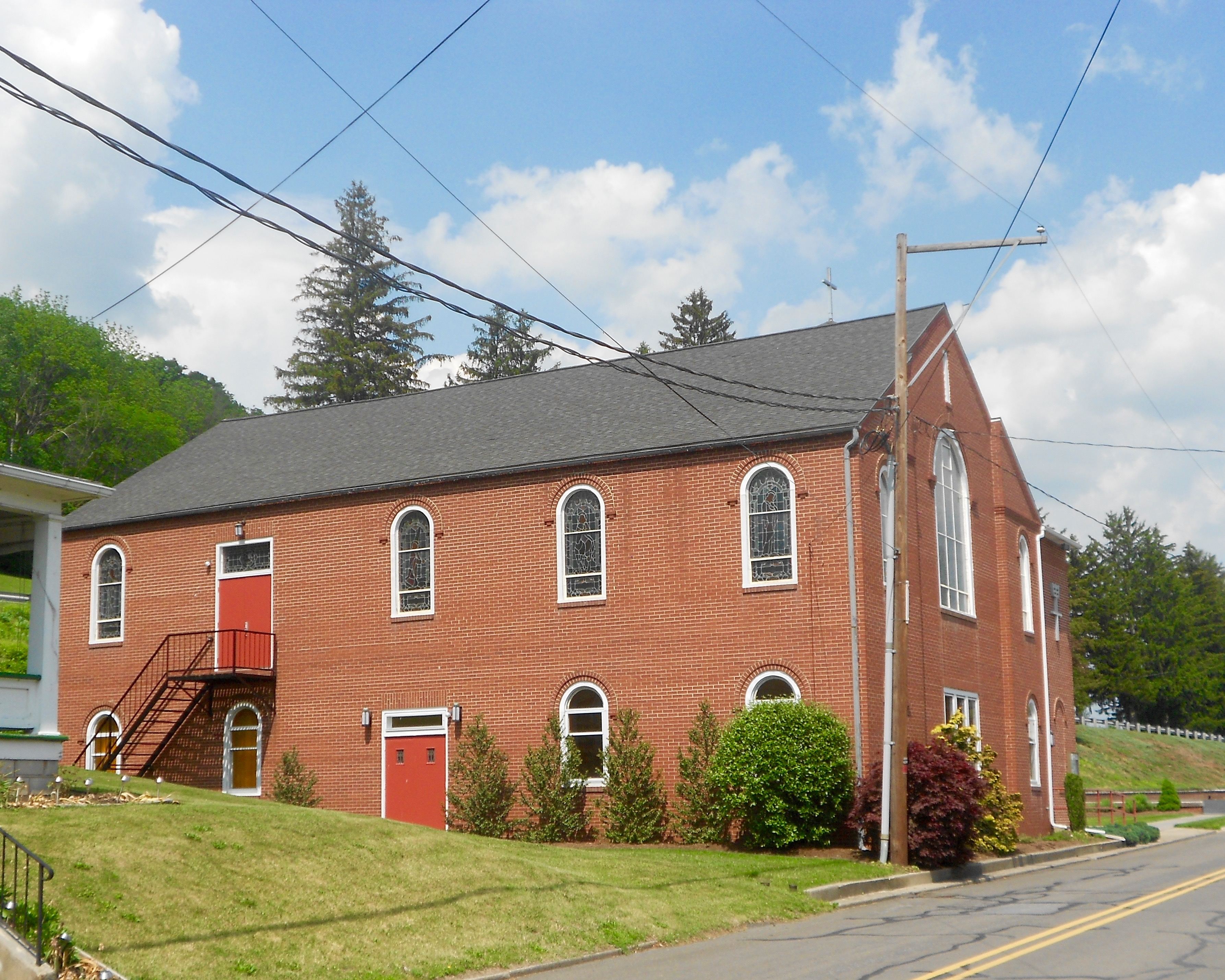 Mt. Bethel Church in McClure, Snyder County, Pennsylvania